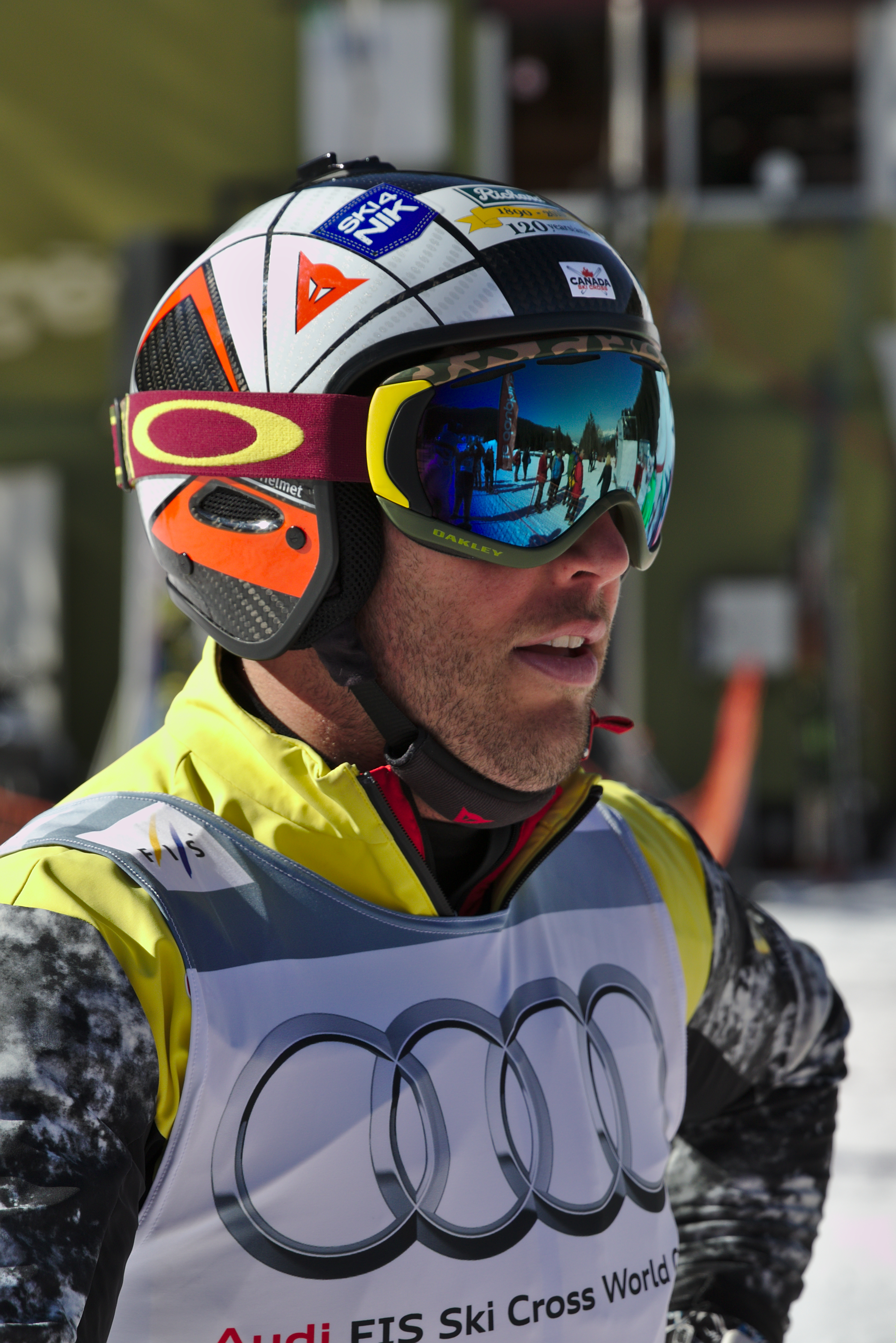 FIS Ski Cross World Cup 2015 - Megève - 20150313 - Louis-Pierre Hélie